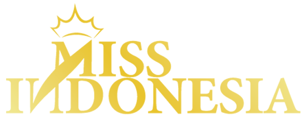 Logo of Miss Indonesia pageant.